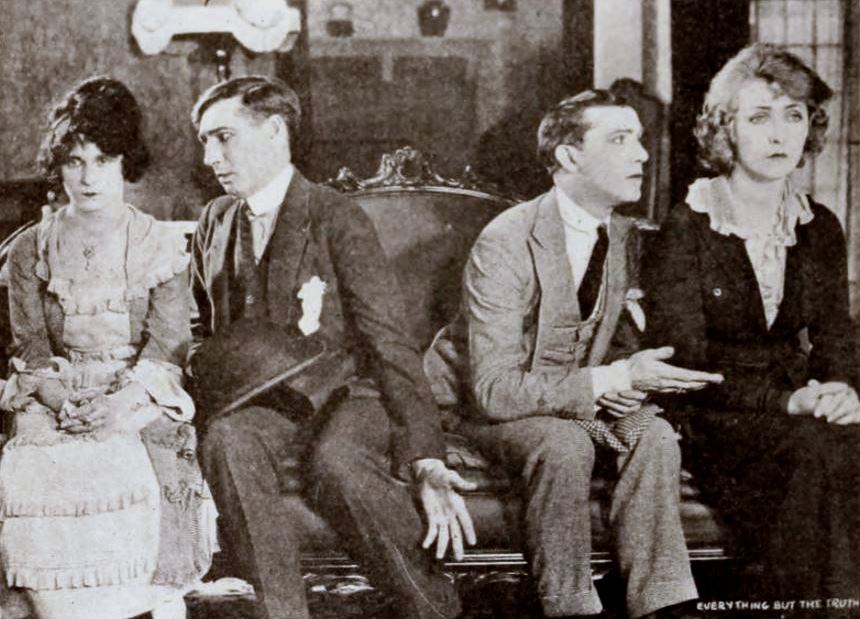 Still from the American comedy short film Everything But the Truth (1920) with Anne Cornwall, Eddie Lyons, Lee Moran, and Katherine Lewis, on page 74 of the May 29, 1920 Exhibitors Herald.